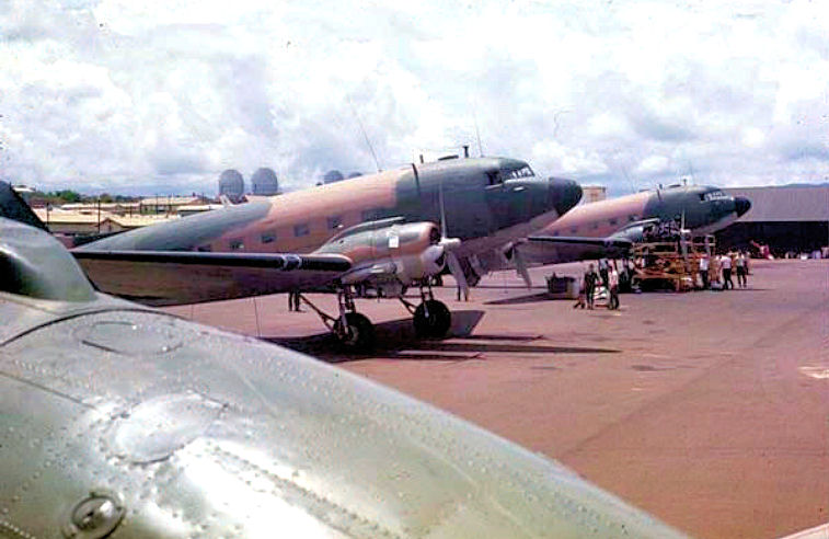 362d Tactical Electronic Warfare Squadron EC-47 Skytrains, Pleiku AB, 1968